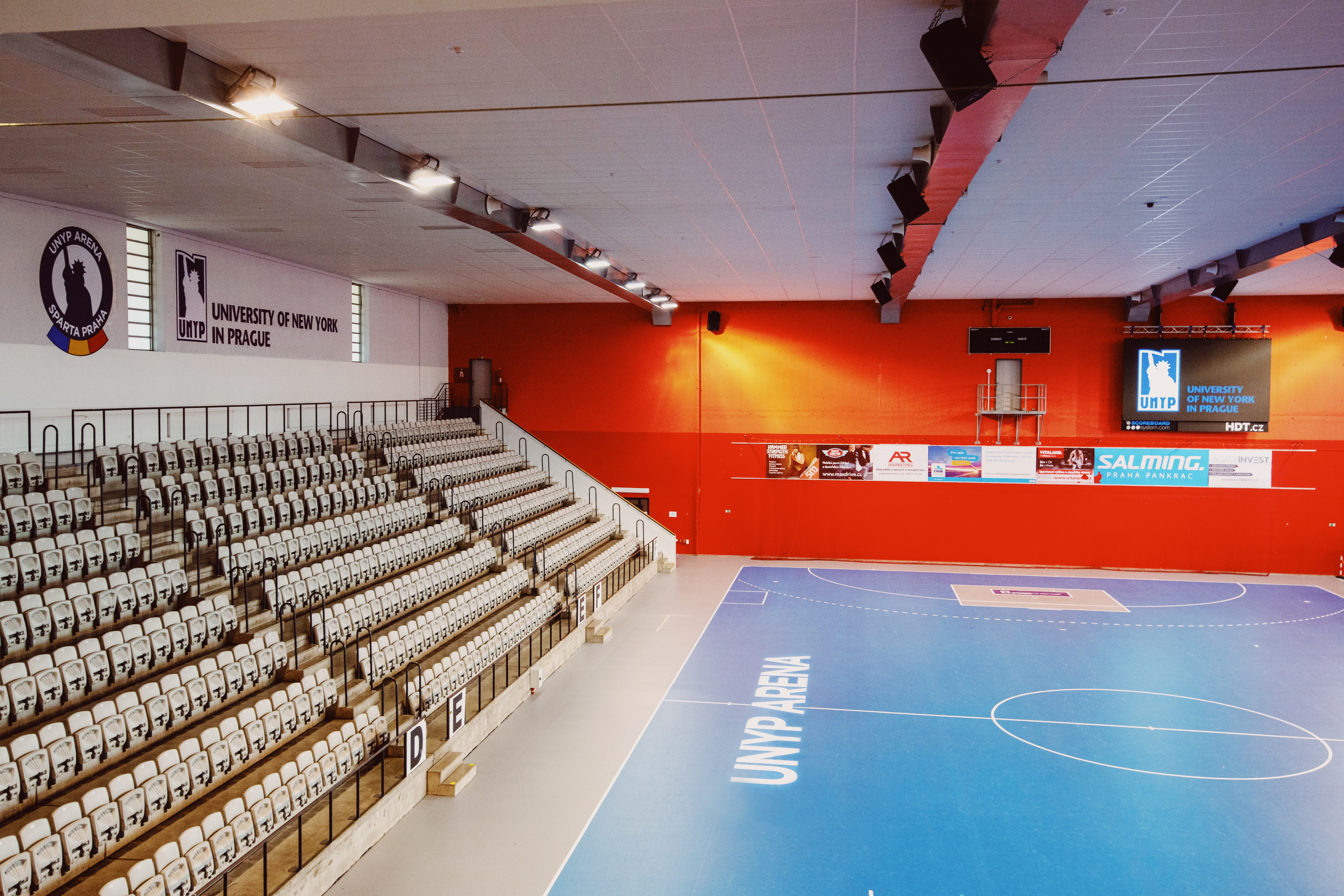 UNYP Arena Main Hall 2019